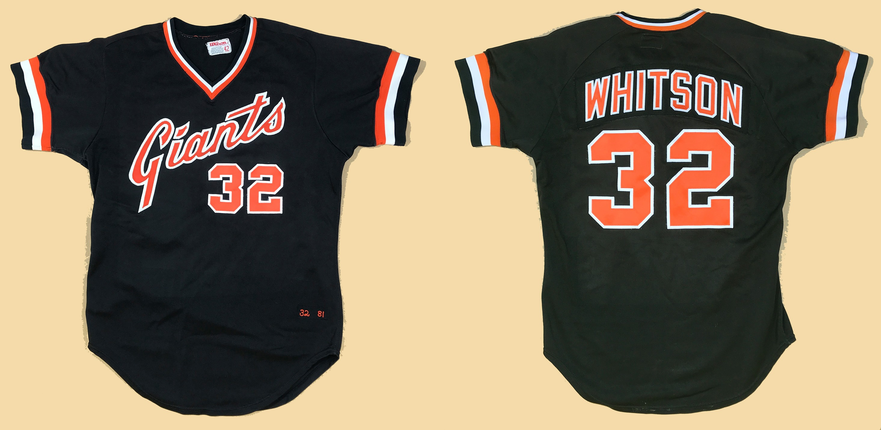 1981 San Francisco Giants #32 Ed Whitson game worn road jersey restored and photographed by William F. Henderson who may be contacted through his website thedream.shop.